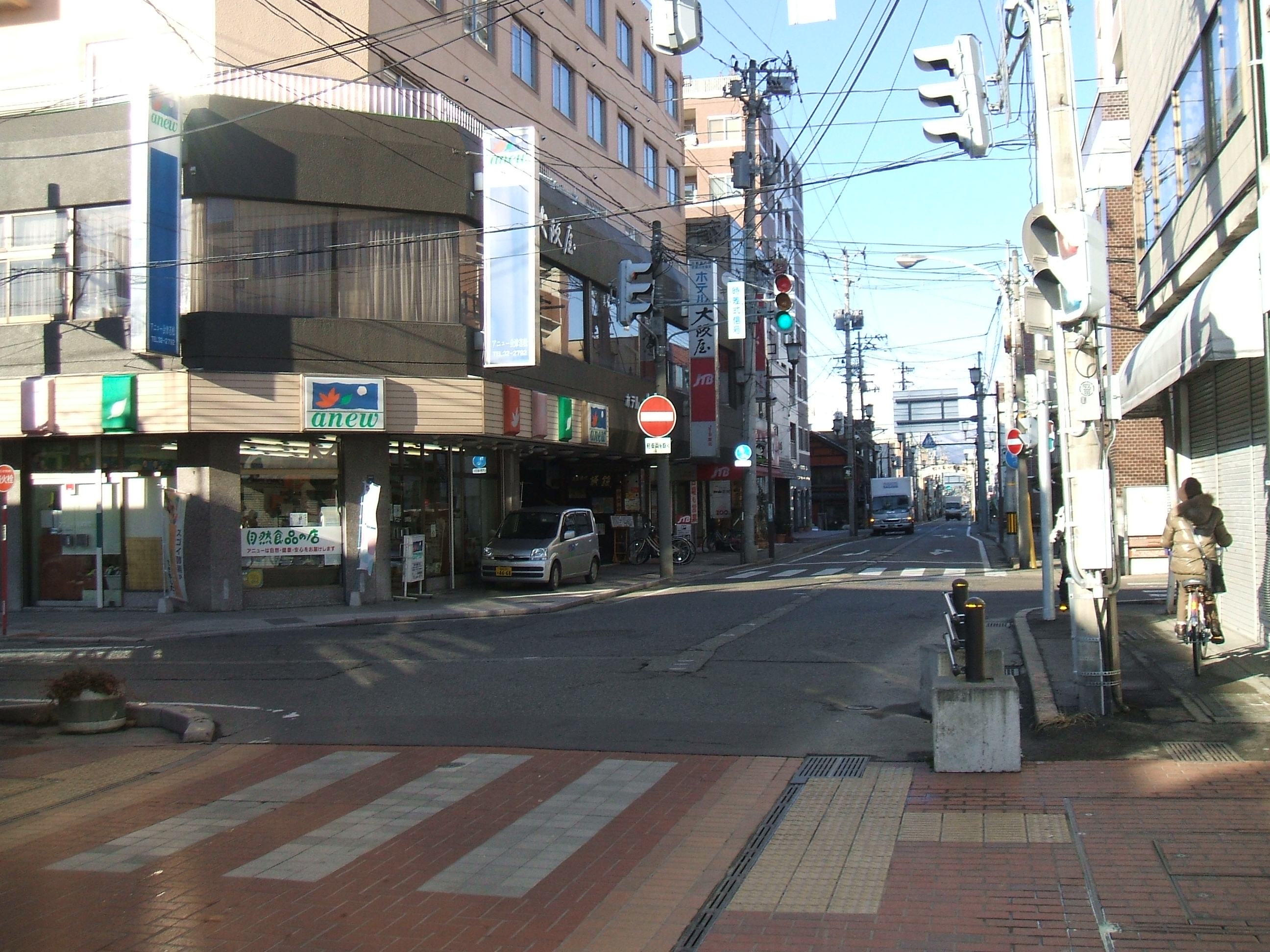 This is a landscape of "Omachi-Hudanotsuji". It was taken at Aizuwakamatsu, Fukushima.